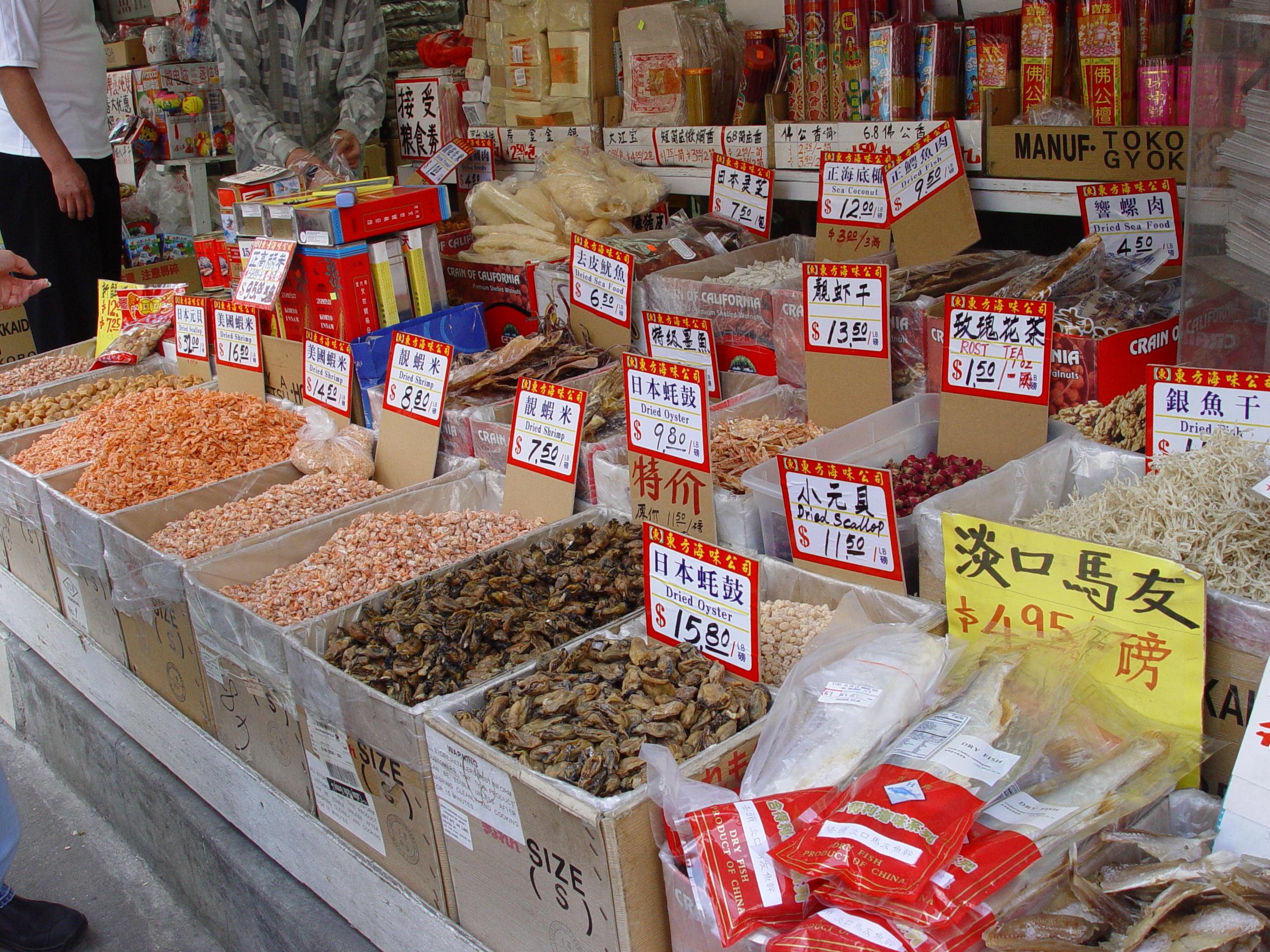 Waren in Chinatown in New York City; Aufnahme mit Sony DSC-F717